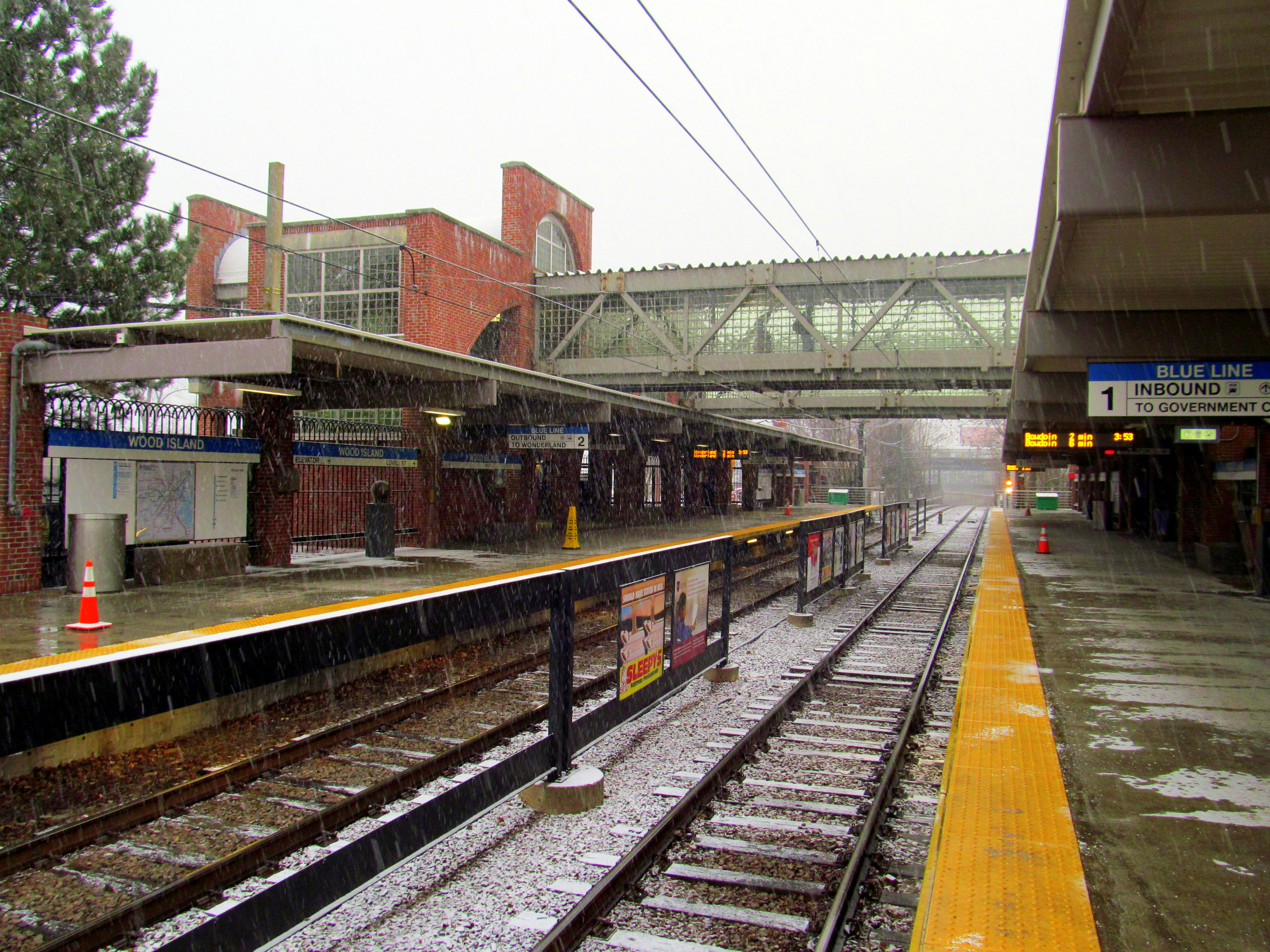 Wood Island station viewed from the inbound platform during a snowstorm in January 2013